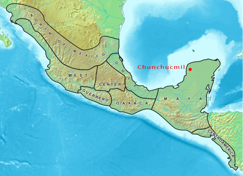 Map of Mesoamerica, highlighting the location of the Maya site of Chunchucmil. This is a modification of File:Mesoamerica english.PNG.